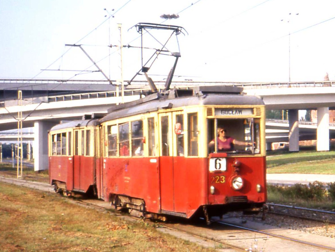 A Konstal 4N double in Szczecin (Poland).